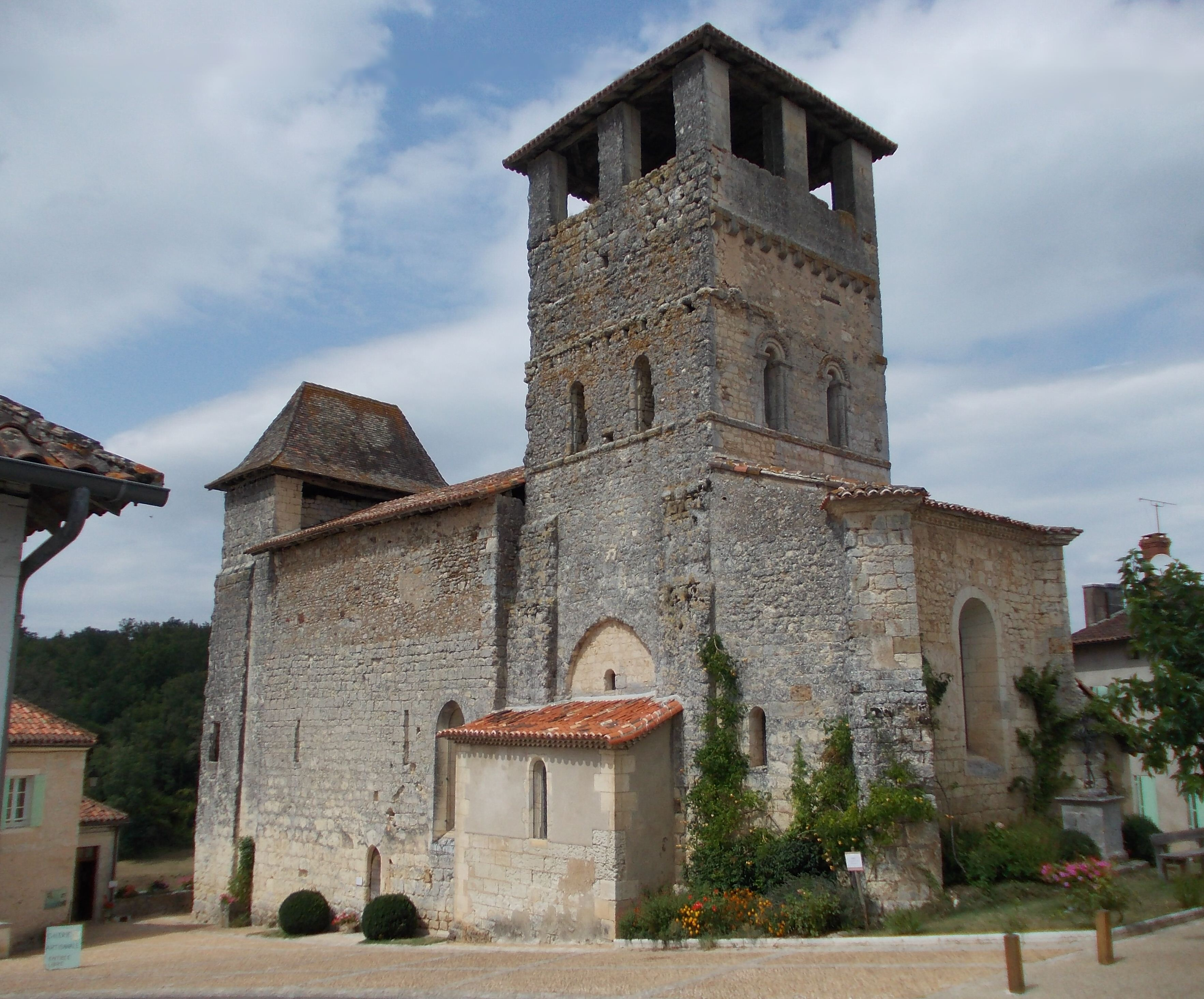 Romanesque church of St Peter in Chains, Siorac-de-Ribérac, Dordogne, France. The freestone bell tower and nave date from 1154 during the English period in the region, Aquitaine. The rectangular tower, and the raising in height of the walls and bell tower with quarry stone, date from the 14th century.